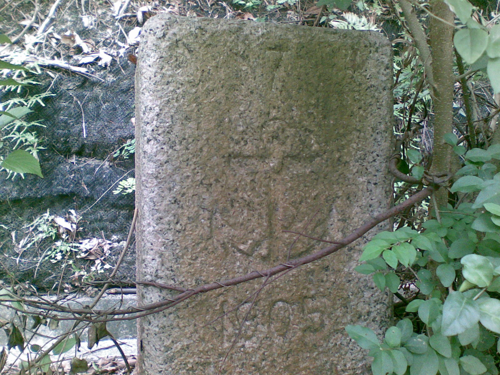 Pillar marking the boundary of naval land, formerly occupied by the Infectious Diseases Hospital, on Mount Parish, Wan Chai, Hong Kong